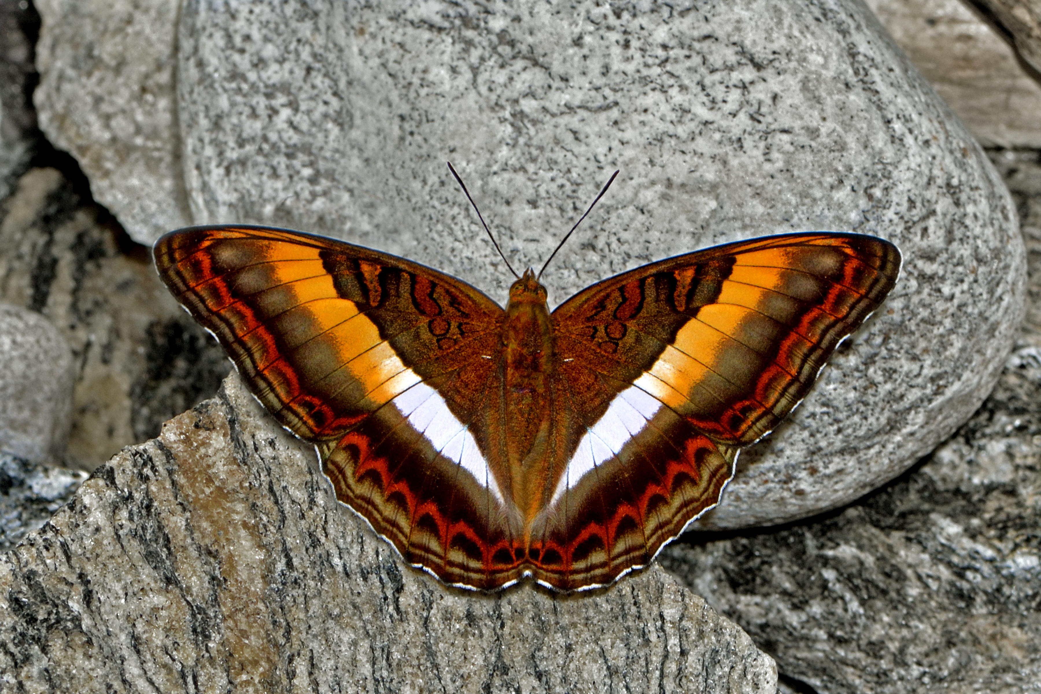 Open wing basking of Parasarpa zayla Doubleday, 1848 – Bicolor Commodore . This specimen belongs to sub-species Parasarpa zayla zayla – Himalayan Bicolor Commodore . Wikidata has entry Q7135878 with data related to this item. অসমীয়া: পাখি মেলা অৱস্থাত ৰ'দ পুৱাই কৰা Parasarpa zayla Doubleday, 1848 – Bicolor Commodore পখিলা । এই নমুনাটো Parasarpa zayla zayla – Himalayan Bicolor Commodore উপ-প্ৰজাতিৰ অন্তৰ্গত ।